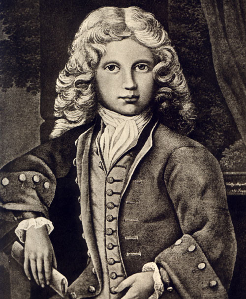 Painting by J_Vander_Smissen.-W,A, Mozart age 11 years